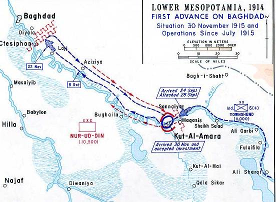 This map shows Townshend's attack towards Baghdad, 1915.